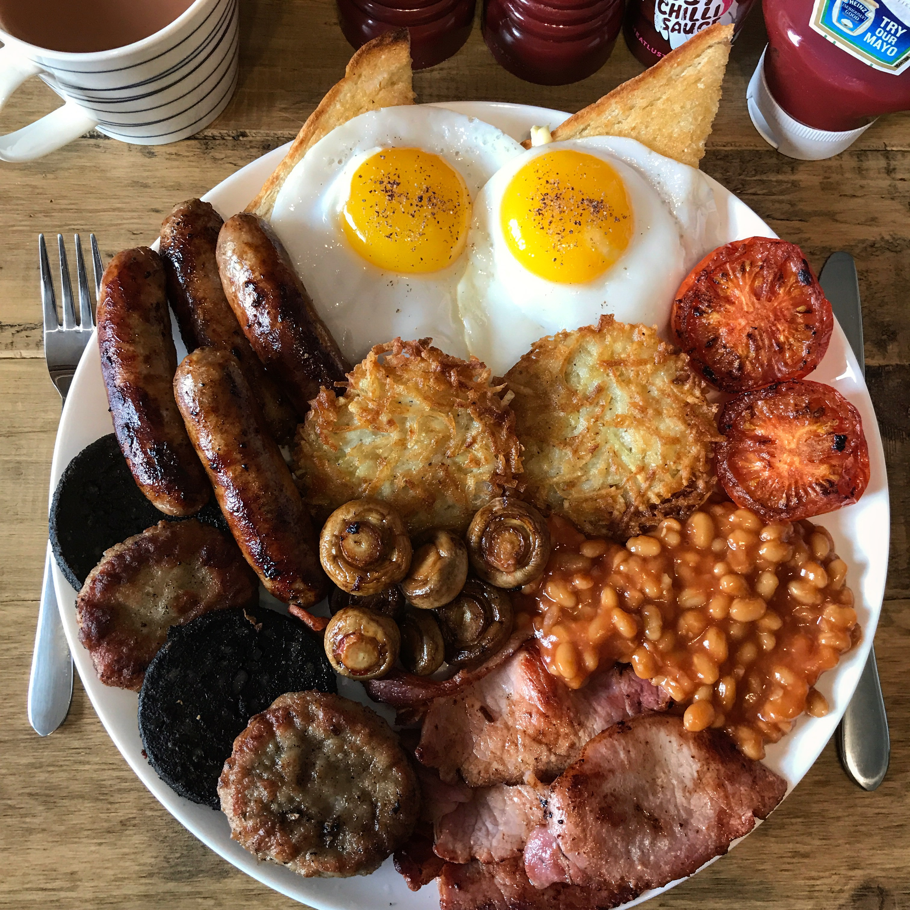 A full English breakfast with fried duck eggs, sausage, white and black pudding, bacon, mushrooms, baked beans, US-Style hash browns, fried bread, and tomato